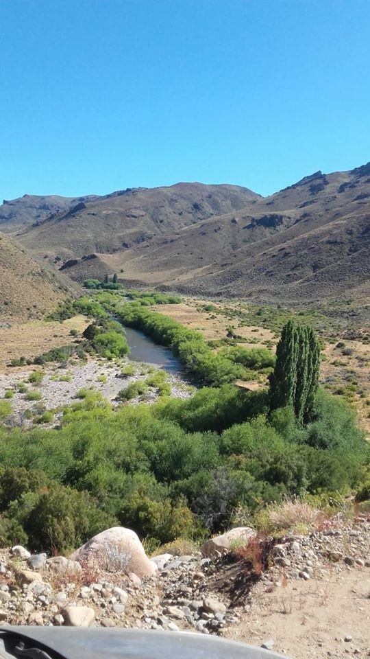 Panoramic view of Las Minas River